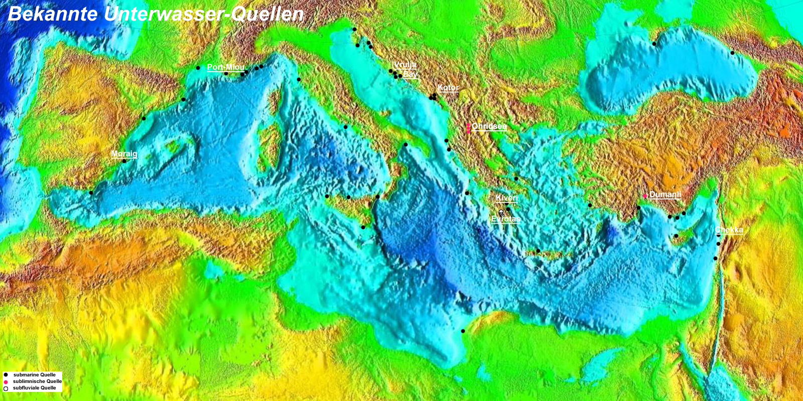 The image shows the Mediterranean Sea and the Black Sea down to their floors. Many costal and submarine springs line the northern hemisphere of the Mediterranean Sea. In several karst regions two or even more interconnected large conduits (up to cave size) are assumed or even scientifically approved, which discharge their fresh water in all submarine or coastal and submarine karst springs (Spain, France, Italy, Lebanon). The search for a rising demand of drinking water led to the documentation of very many springs of this kind. The submerging of the karst springs under sea level used to be explained by rising sea levels of ca. 120 m since late Pleistocene (melting of Polar ice). The new theory of the Messinien crisis, meanwhile empirically confirmed, considers a sea level fall down to the sea bottom up to 2500 m in late Miocene. This widened the view for much deeper karstic processes and thus for submarine springs, being up to500 m deep. Image based on NASA World Wind. Surface image of the Mediterranean Sea and Mediterranean Basin.